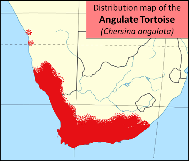 Distribution map of the Bowsprit or Angulate tortoise - chersina angulata - in South Africa and Namibia.